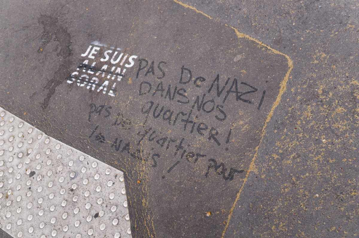 Graffiti on the streets of Paris, with two viewpoints about Alain Soral